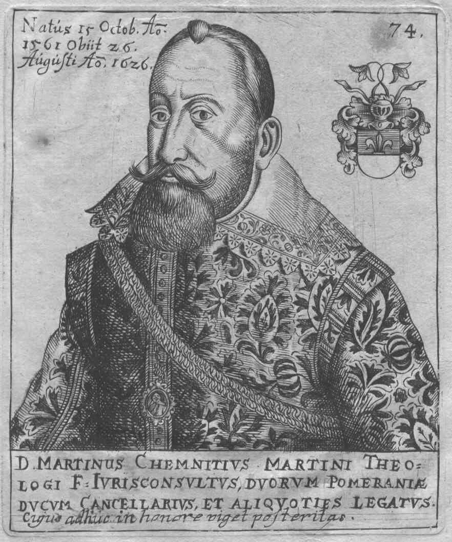 Portrait of Martin Chemnitz (1561-1627) copper engraving, picture: 125x103 mm; plate: 127x106 mm In: Martin Friedrich Seidel: Icones et elogia virorum aliquot praestantium. o. J. [Bl. 74]; also in: Georg Gottfried Küster: Martin Friedrich Seidels Bilder-Sammlung. 1751, after p. 160